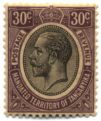 Scan of Tanganyika 30c stamp of 1927